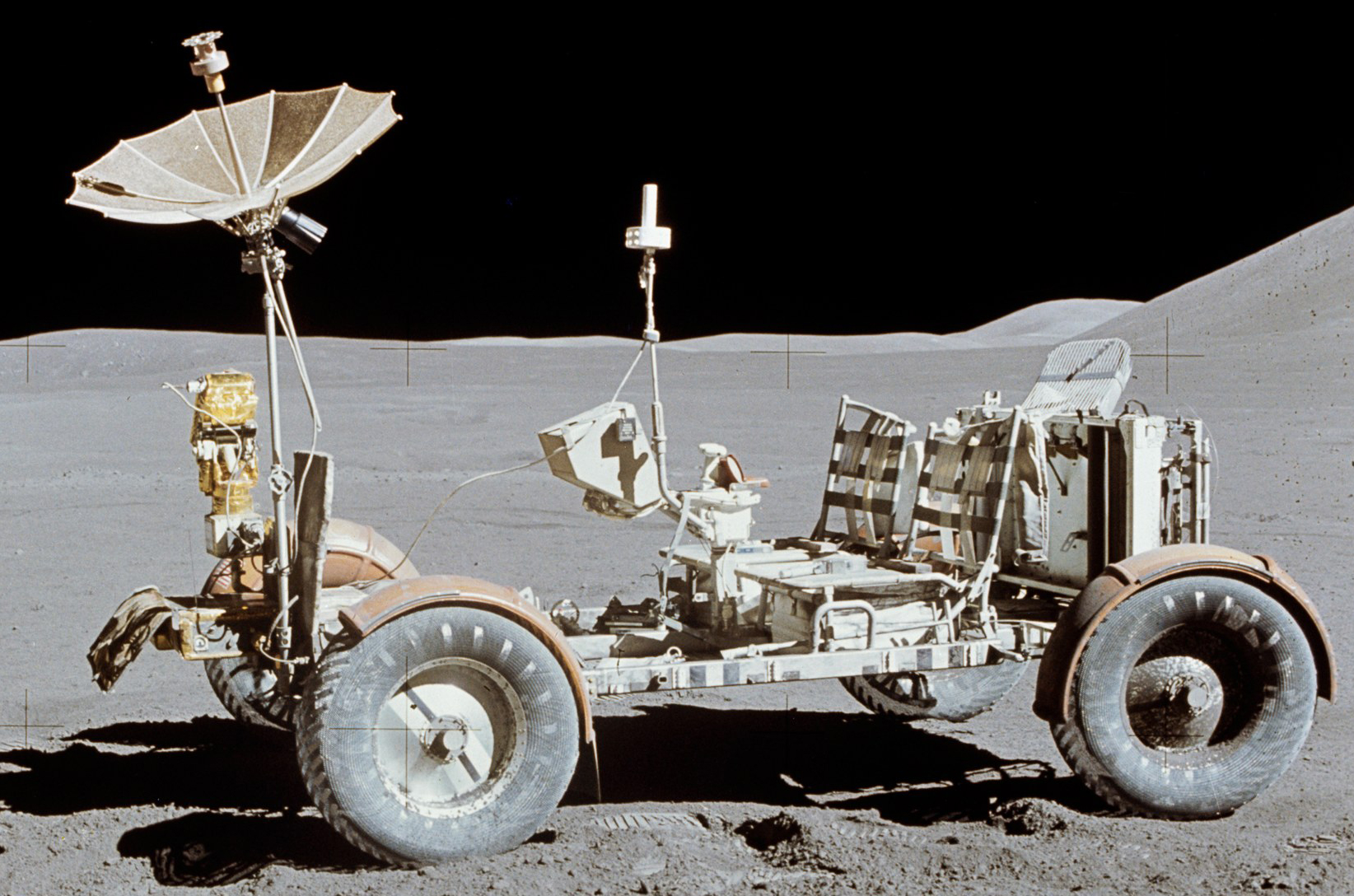 One of a series of images taken as a pan of the Apollo 15 landing site, taken by Commander Dave Scott. Featured is the Lunar Roving Vehicle at its final resting place after EVA-3. At the back is a rake used during the mission. Also note the red Bible atop the hand controller in the middle of the vehicle, placed there by Scott.